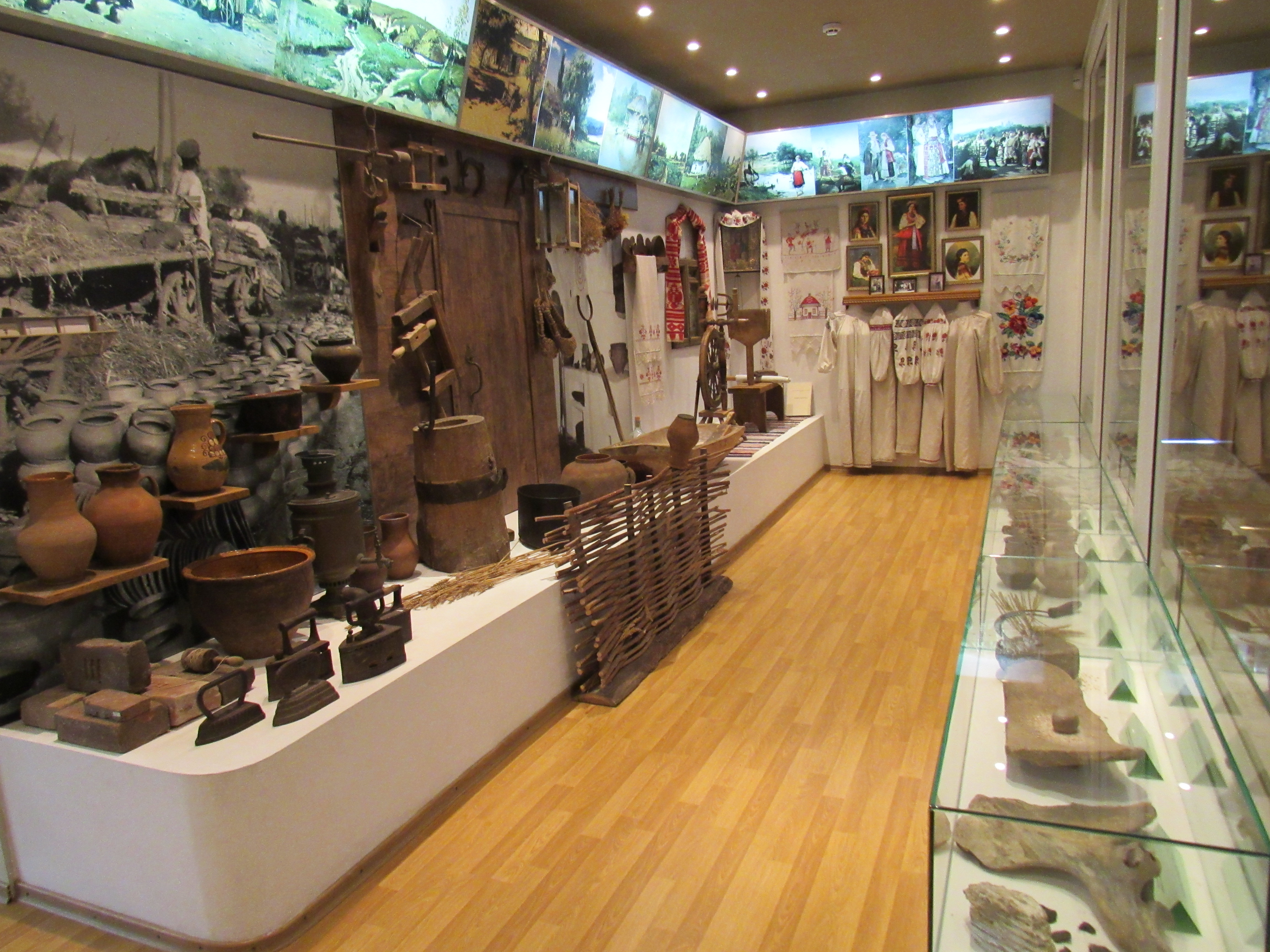 Музей історико-краєзнавчих досліджень Сумського державного університету